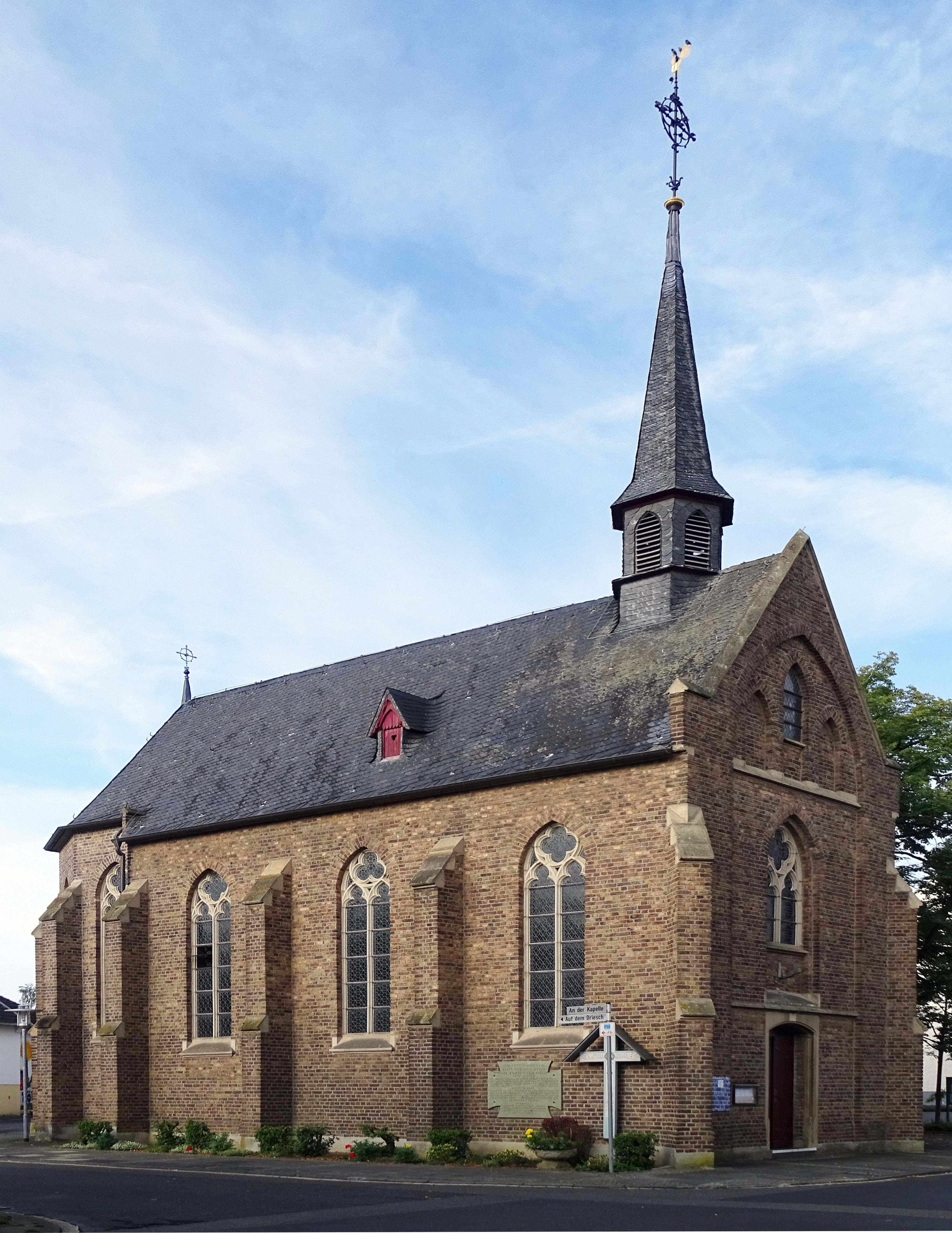 Catholic chapel of St. Michael in Meckenheim, Godesberger Straße: view from the Godesberger Straße.